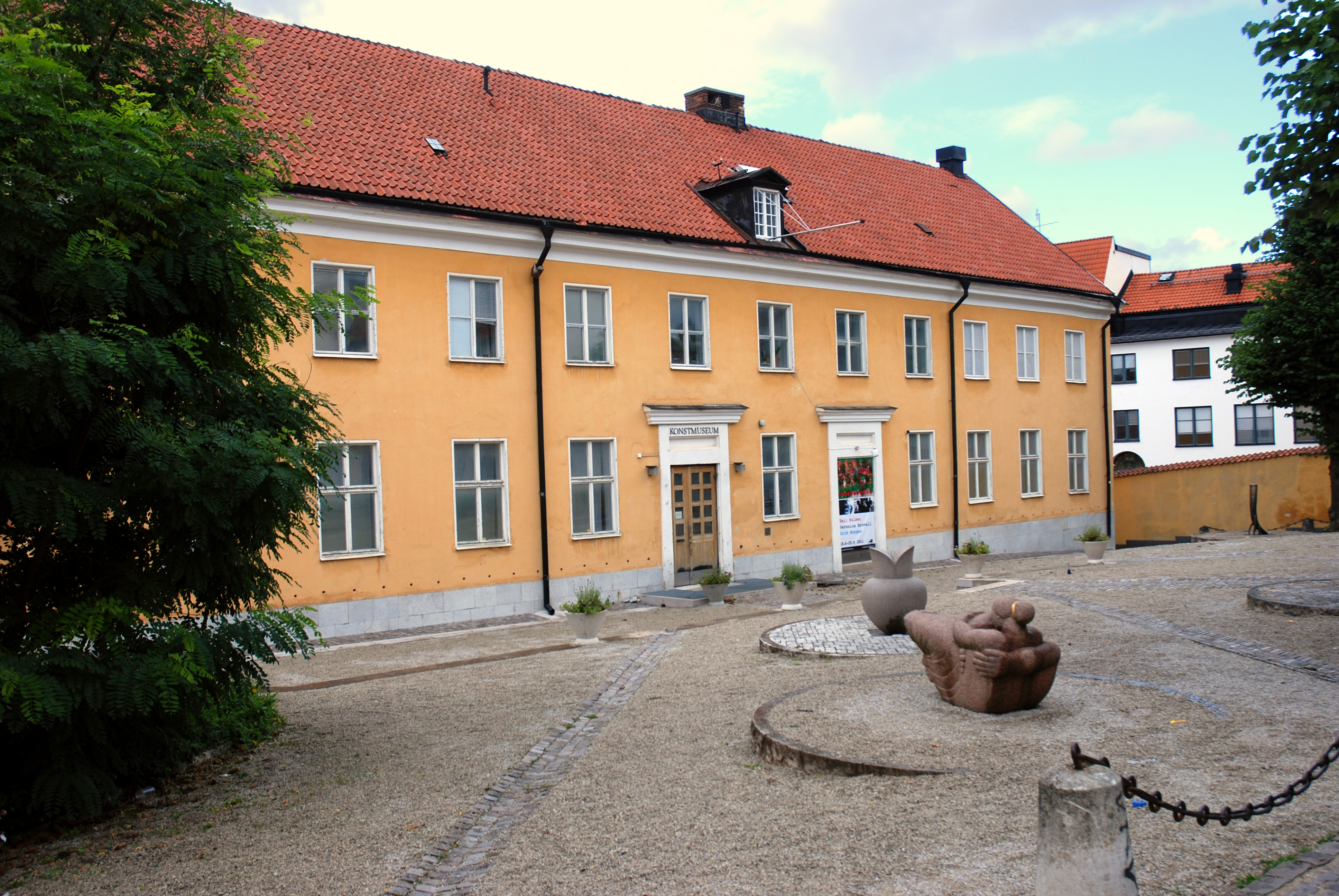 Visby Konstmuseum (Visby Art Museum), Gotland, SwedenIn front sculptures by Pye Engström and Eva Lange